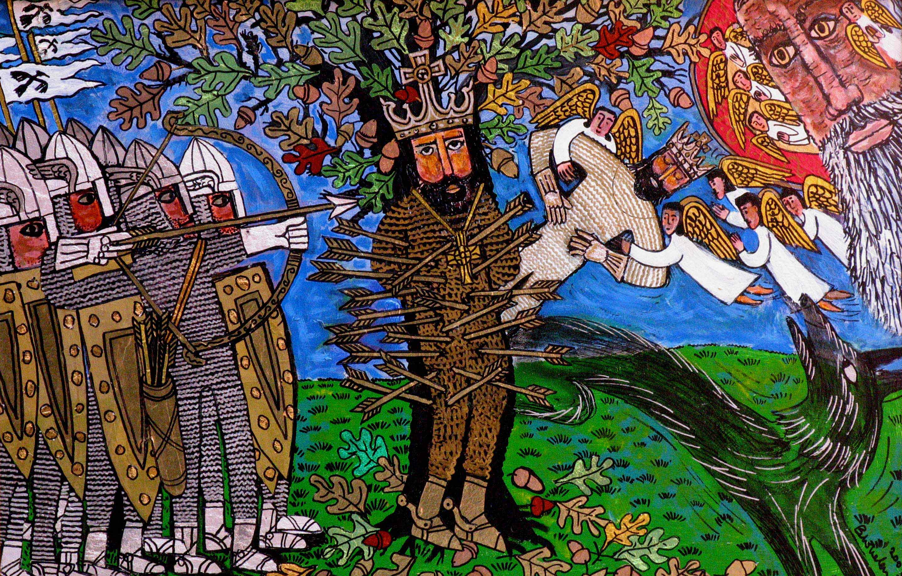 Painting by Brian Whelan, 2003, acrylic on board